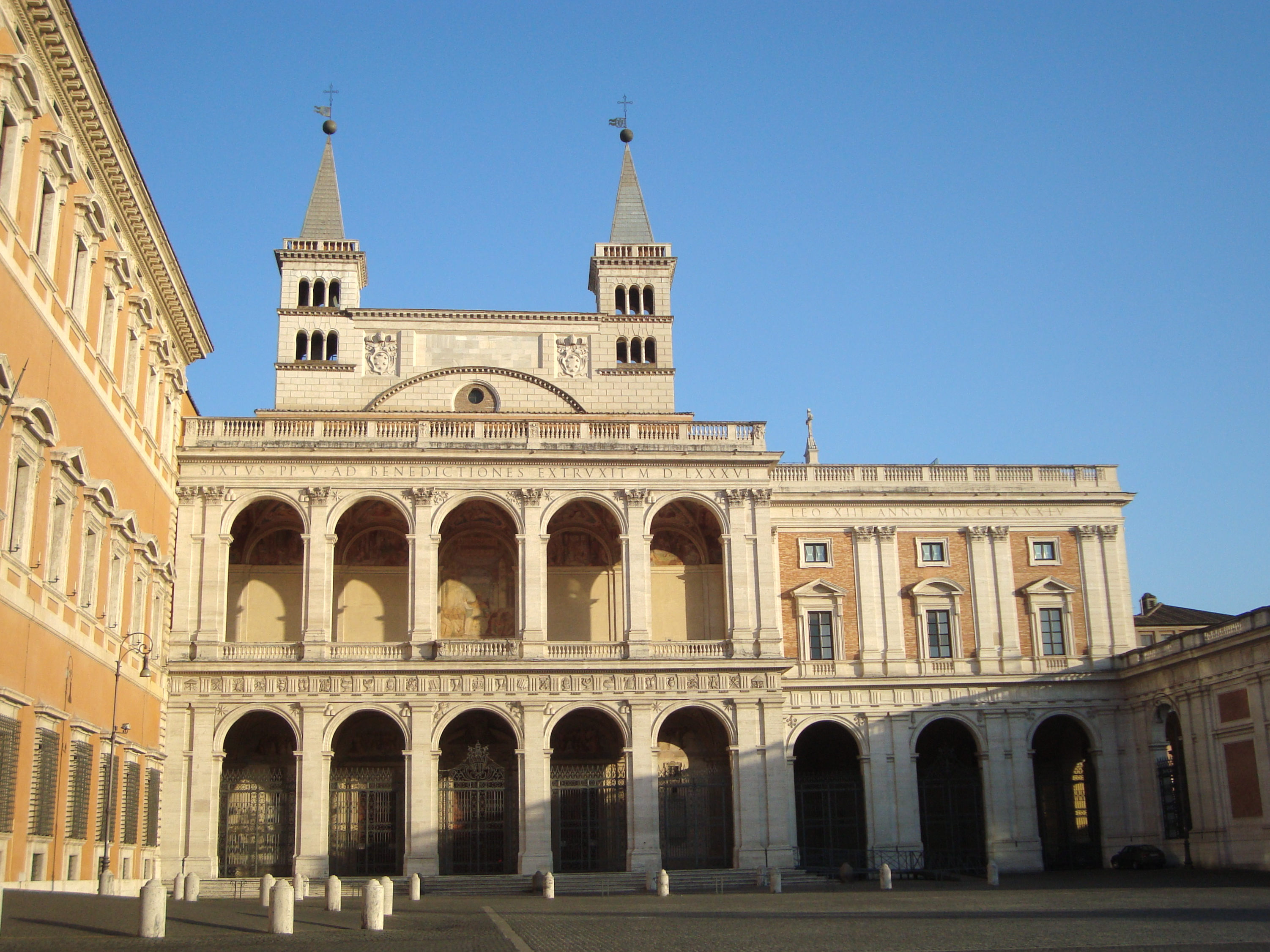 View of the Loggia delle Benedizioni of the Lateran Palace in Rome.